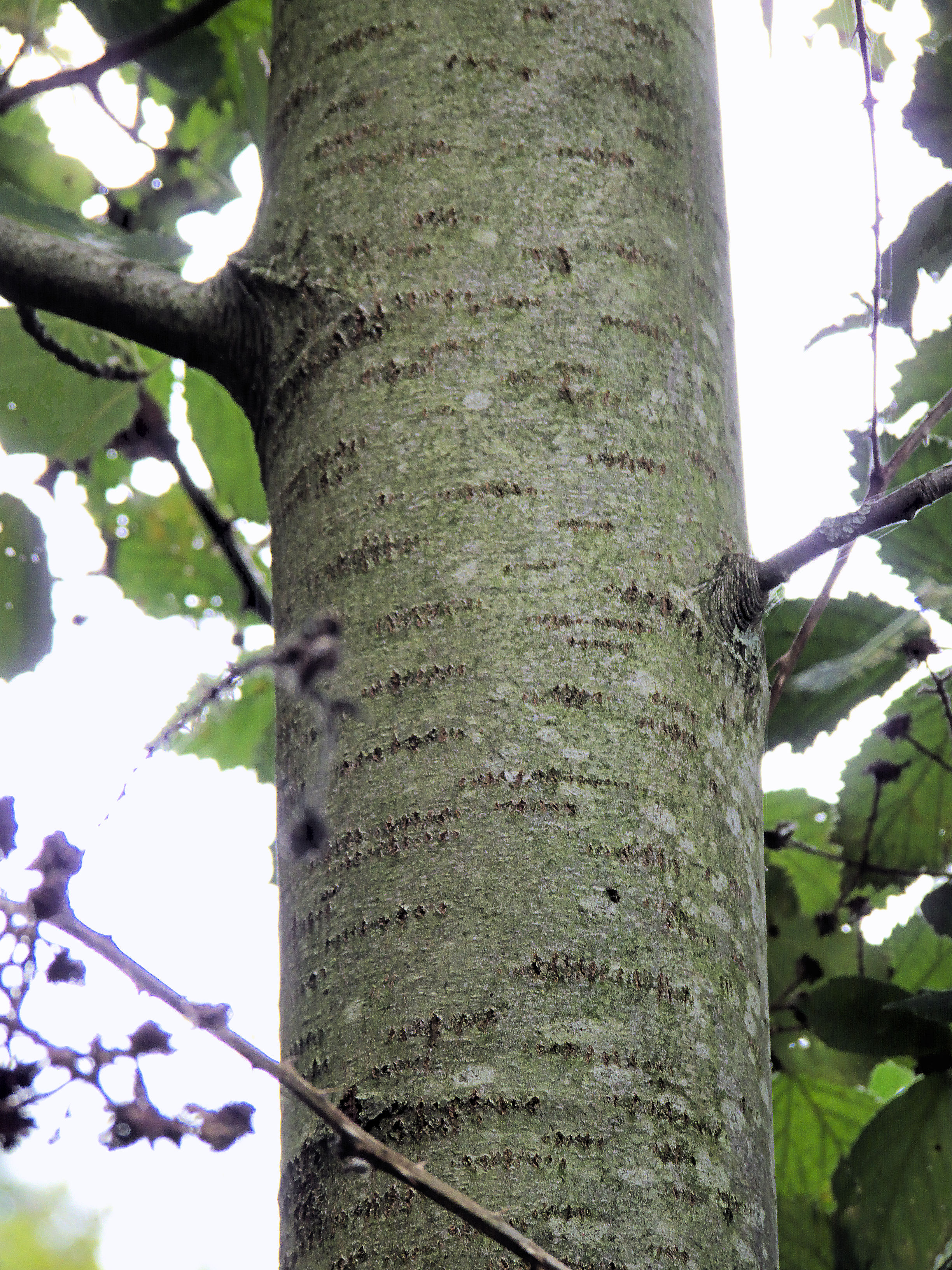 Populus tremula at Grote Veenderplas, Renswoudsestraatweg, Lunteren, Nederland